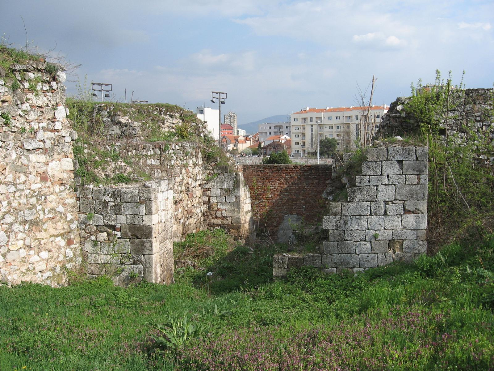 Remains of old (roman or medieval) gate eastern section of Niš fortress, Serbia.